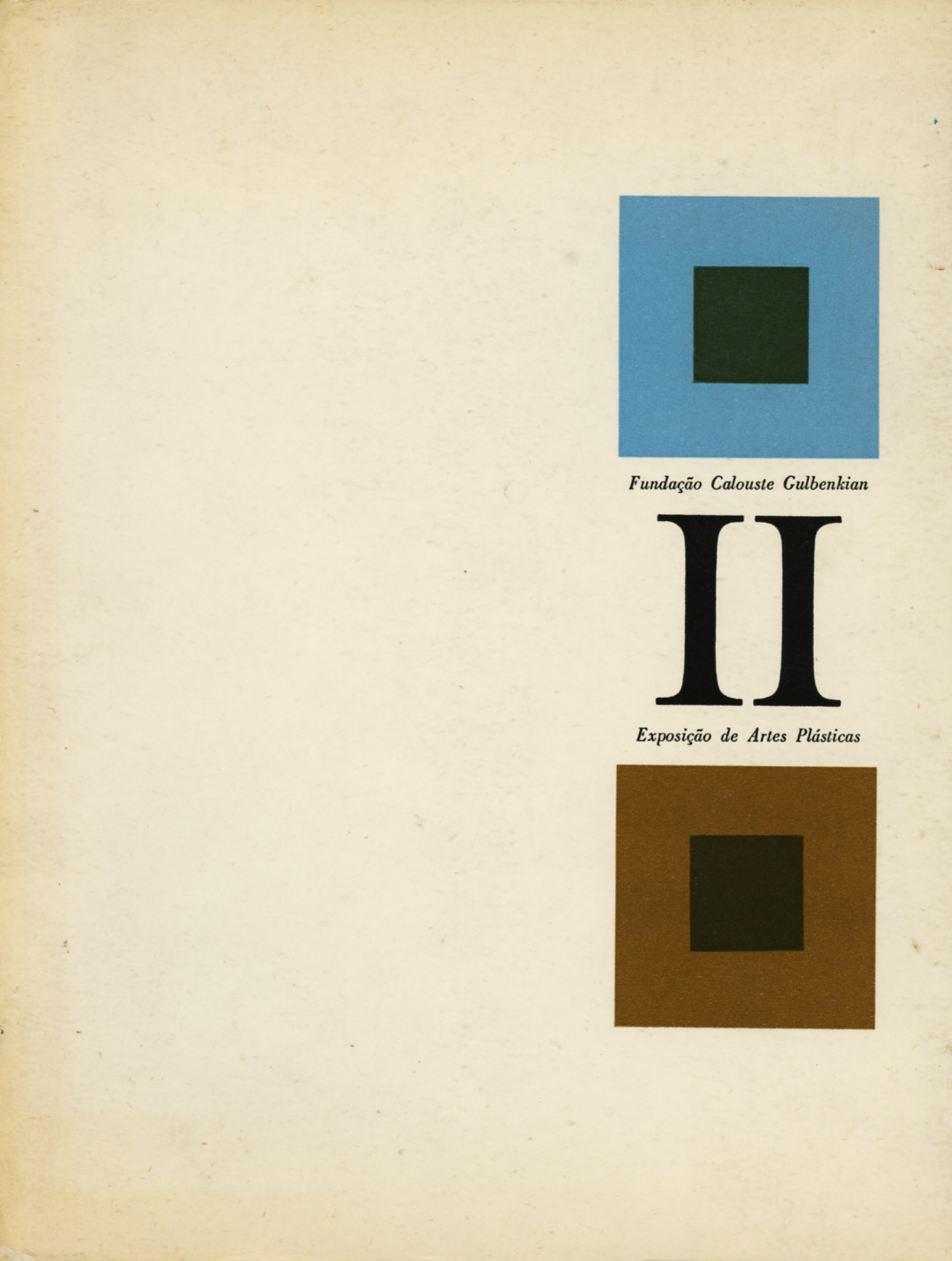 II Fine Art Exhibition, Calouste Gulbenkian Foundation, 1961 (exhibition catalogue; front cover)